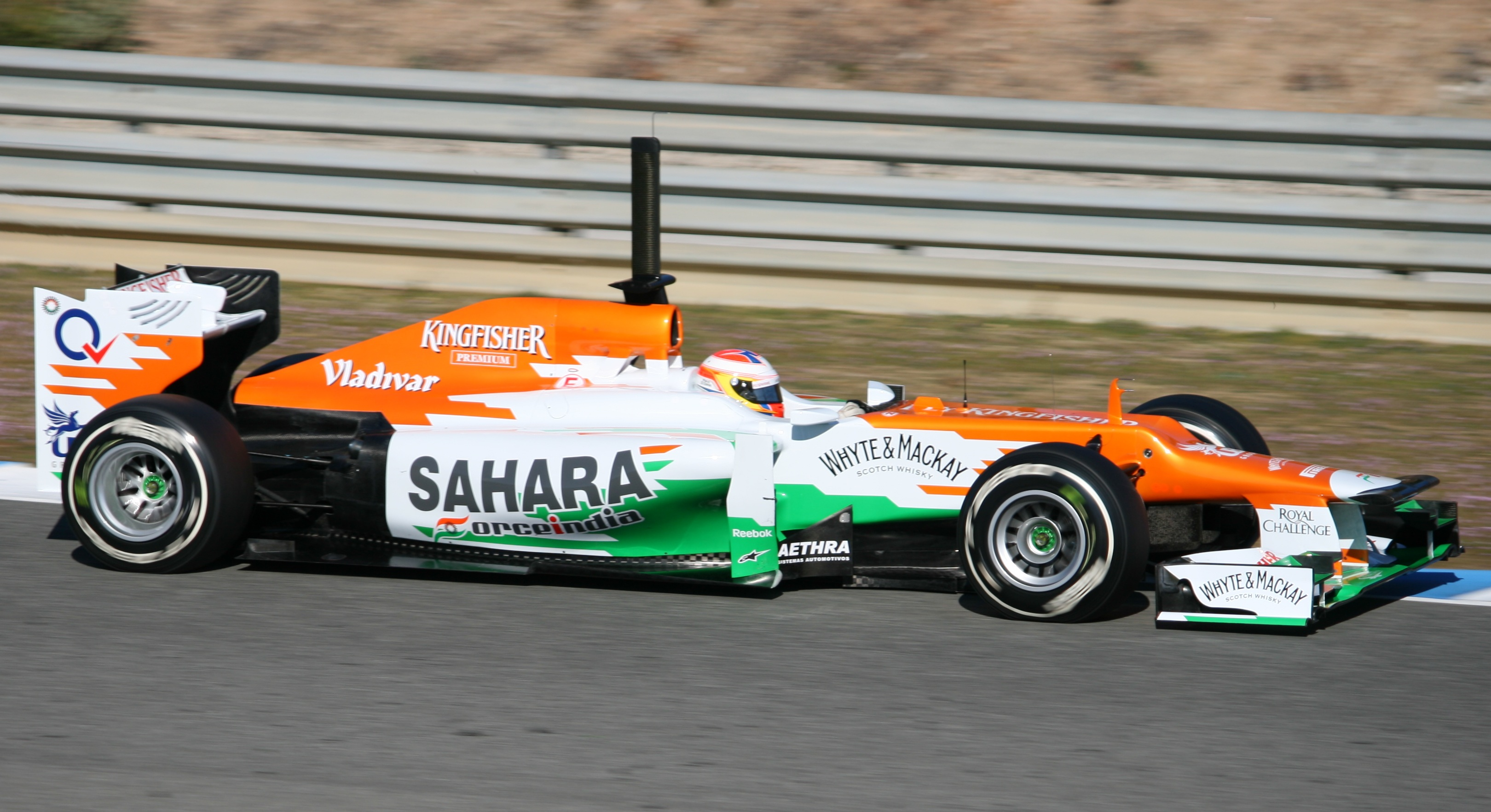 Paul di Resta pre-season testing Force India VJM05 in Jerez, Spain.